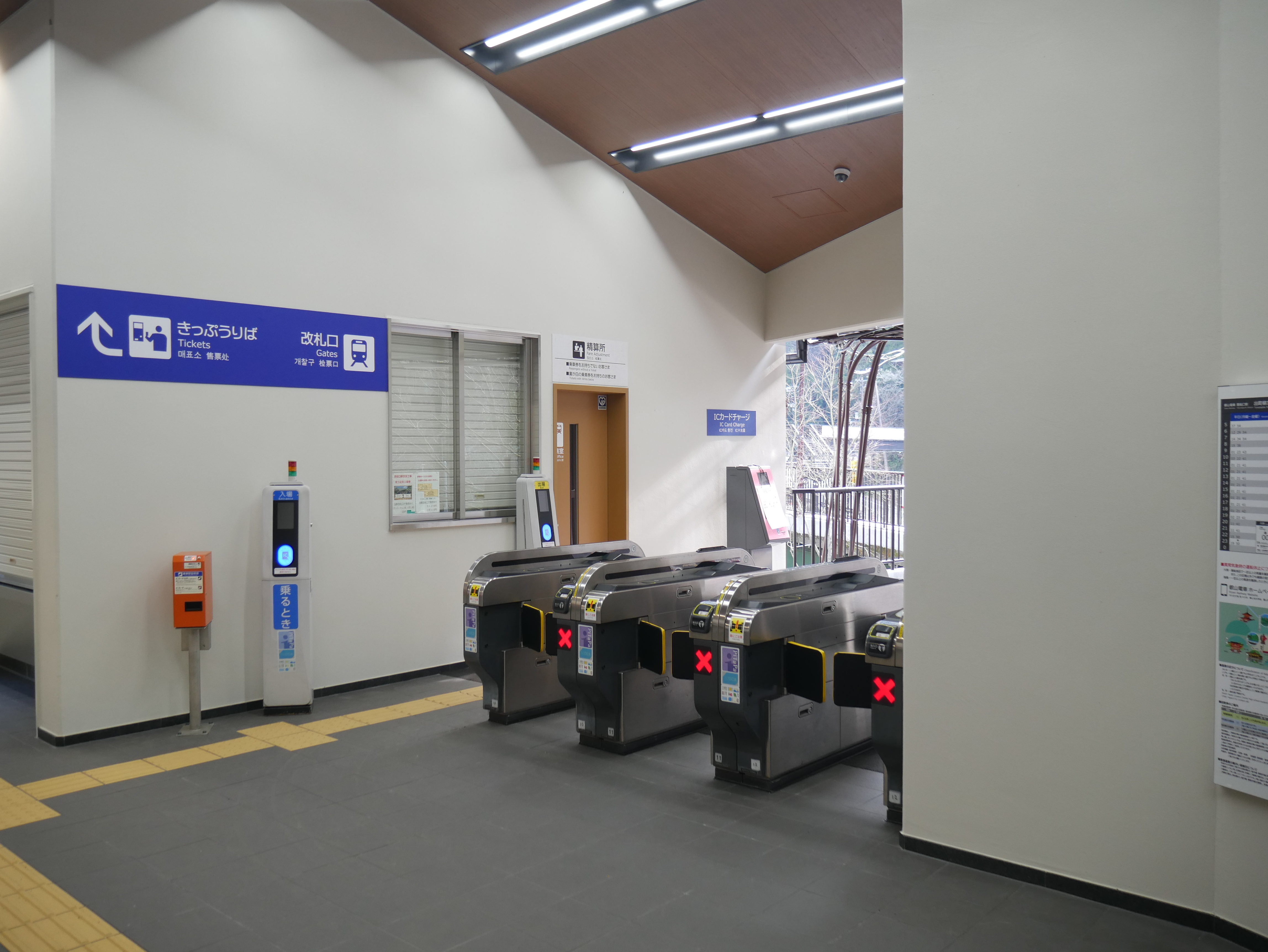 Ticket gates in Kibuneguchi station